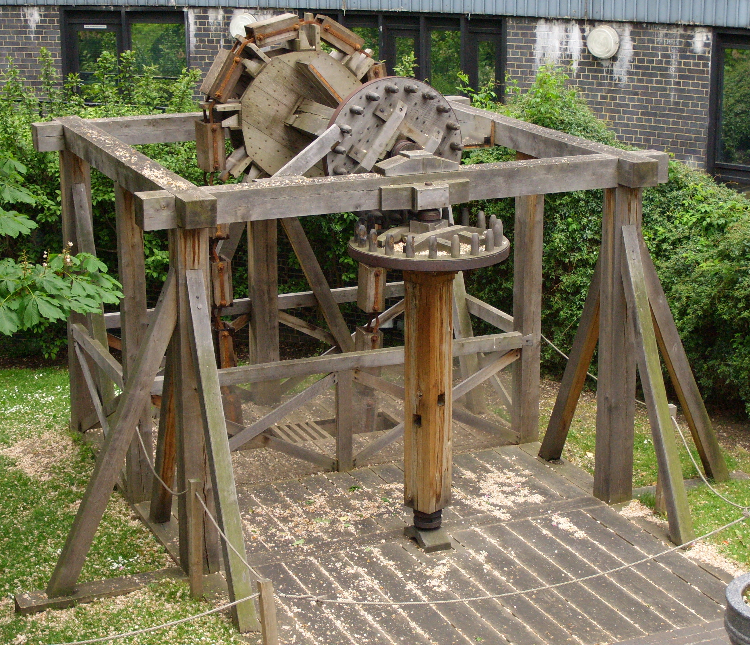 Reconstructed Roman water wheel, Aldersgate, London